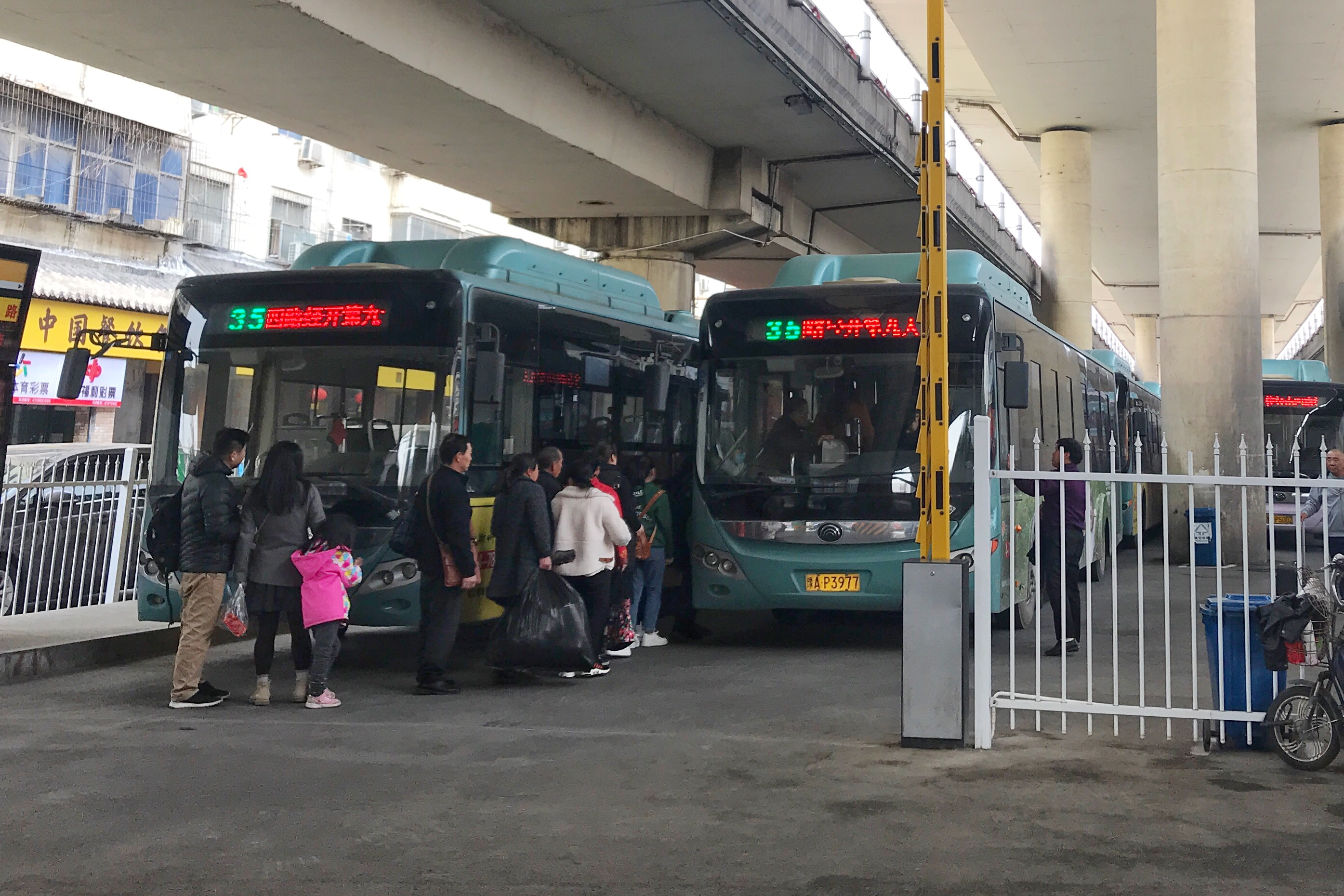 Yutong ZK6120CHEVNPG4 buses of ZZB Route 35